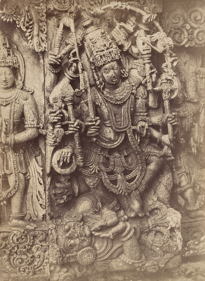 The sculpture shows the Hindu god Shiva crushing the demon Tripurasura. On left is seen Kartikey, Shiva and Parvati's eldest son. The image is an albumen print taken by Richard Banner Oakeley in 1856. The sculpture is present at the temple complex at Halebidu in the Karnataka state of India and is made in the duration of Hoysala empire (ca. 1026–1343 AD).